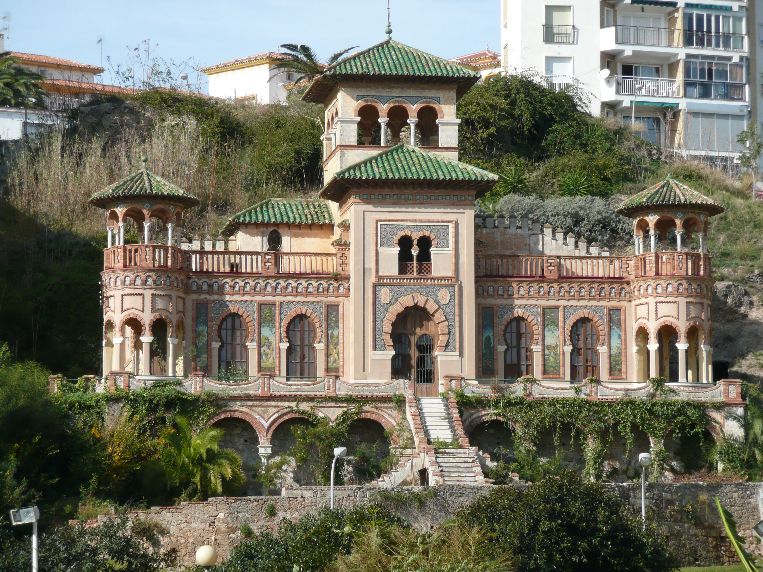 House in Torremolinos, Málaga, Spain